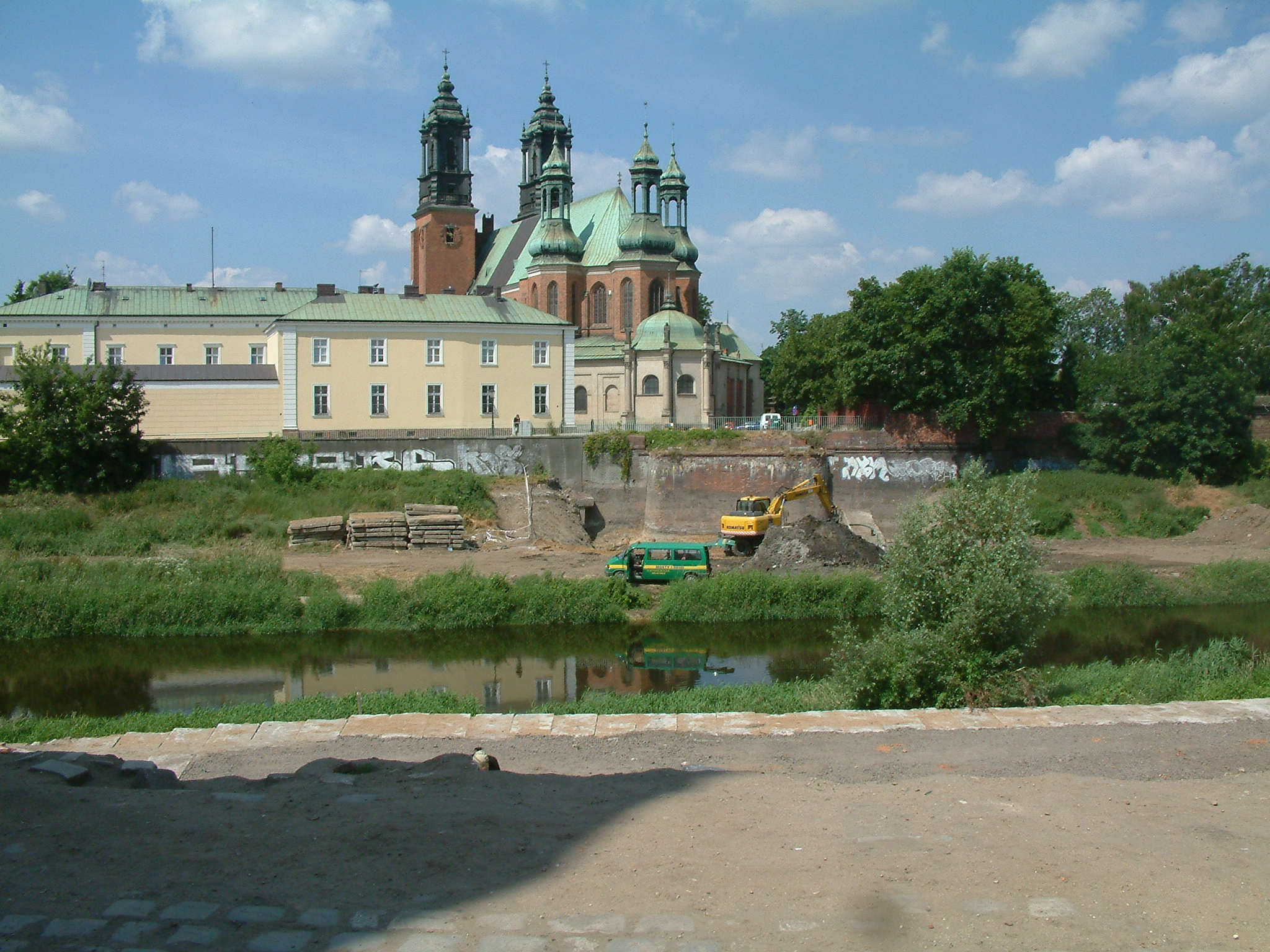 Excavations during reconstruction of Śródecki Bridge (western shore)